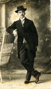 Photo portrait of the Venezuelan director Lucas Manzano, pre-1918